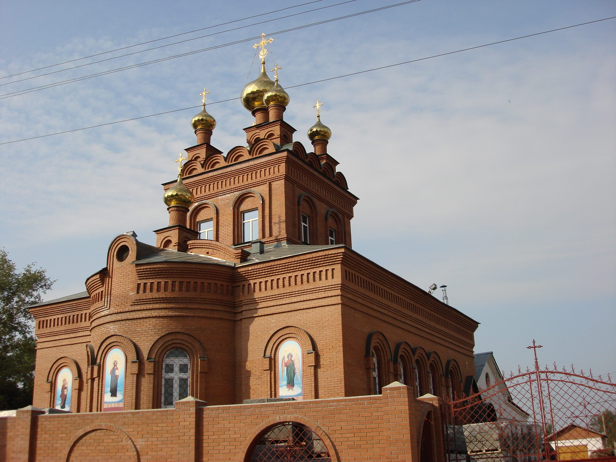 Yuzhnouralsk, Church of the Transfiguration.